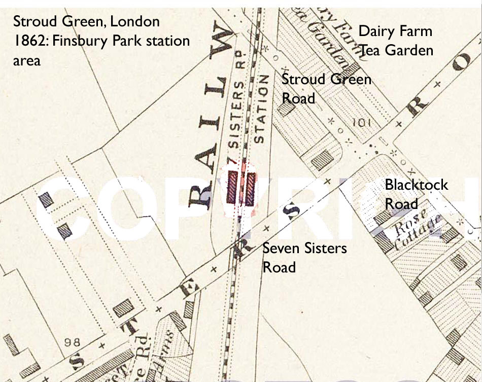 For more information about this area see the Wikipedia pages about Stroud Green This map is taken from Edward Stanford's 24 plate 6 inch to the mile Library Map of London & Its Suburbs, which was first published in 1862. N.B. The present-day street names are given in Gill Sans type.